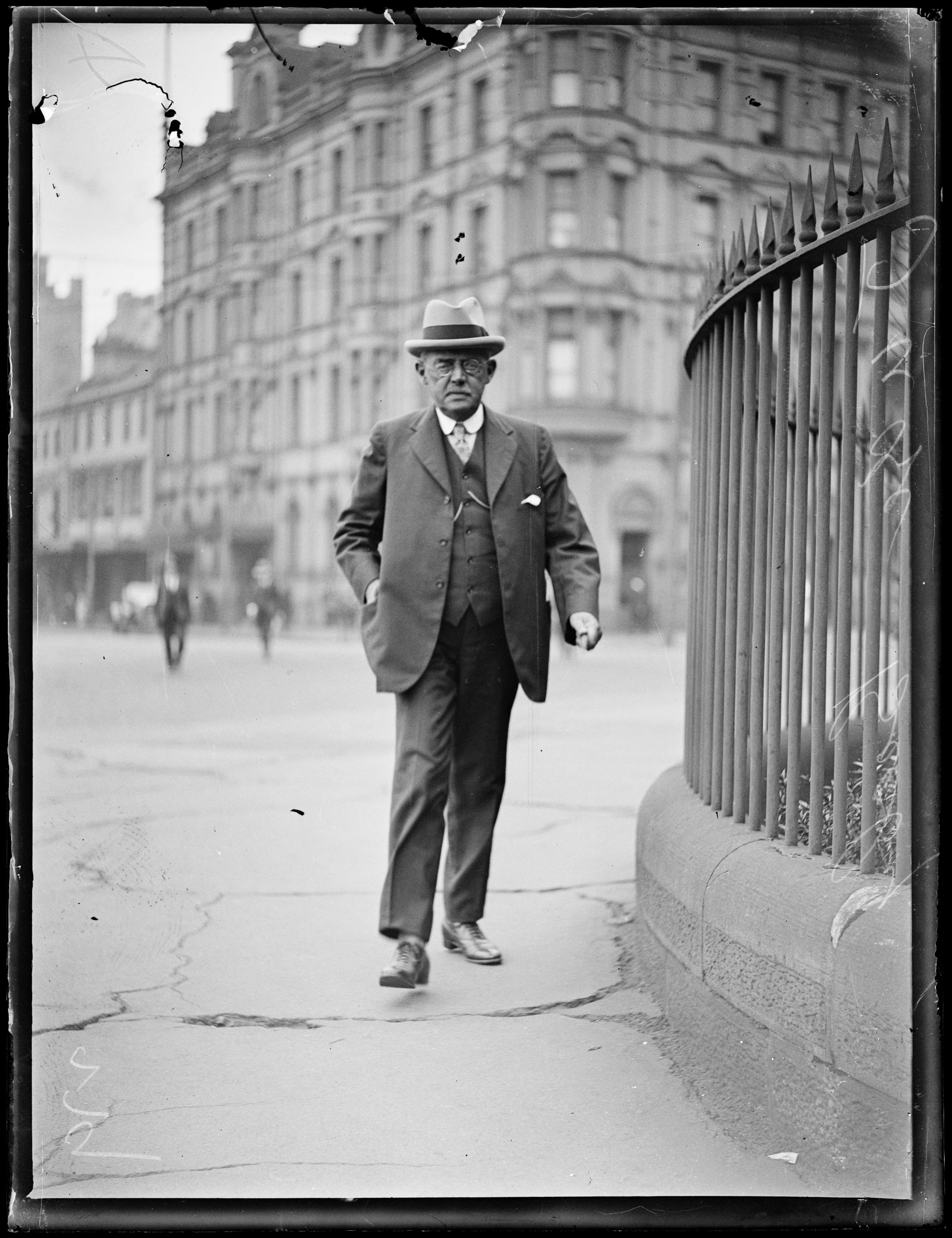 George Beeby, Australian judge, walking along a Sydney street